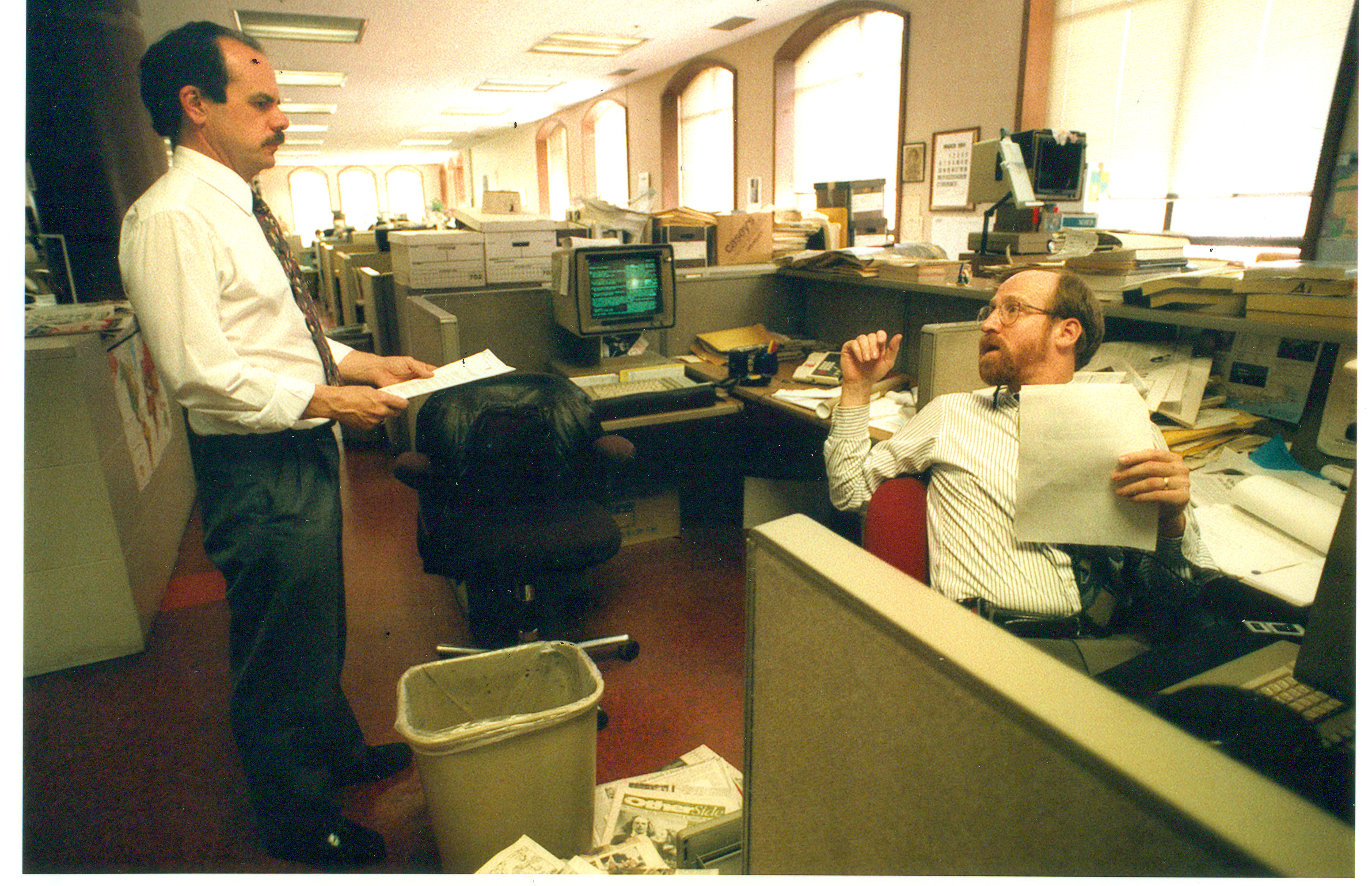 Phil Matier and Andrew Ross are the San Francisco Chronicle's Insider columnists. 1994 photograph by Nancy Wong